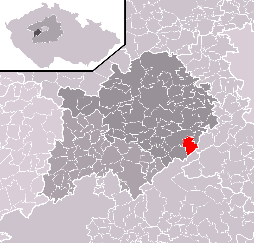 Location of Svinaře municipality within Beroun District and administrative area of Beroun as a Municipality with Extended Competence.